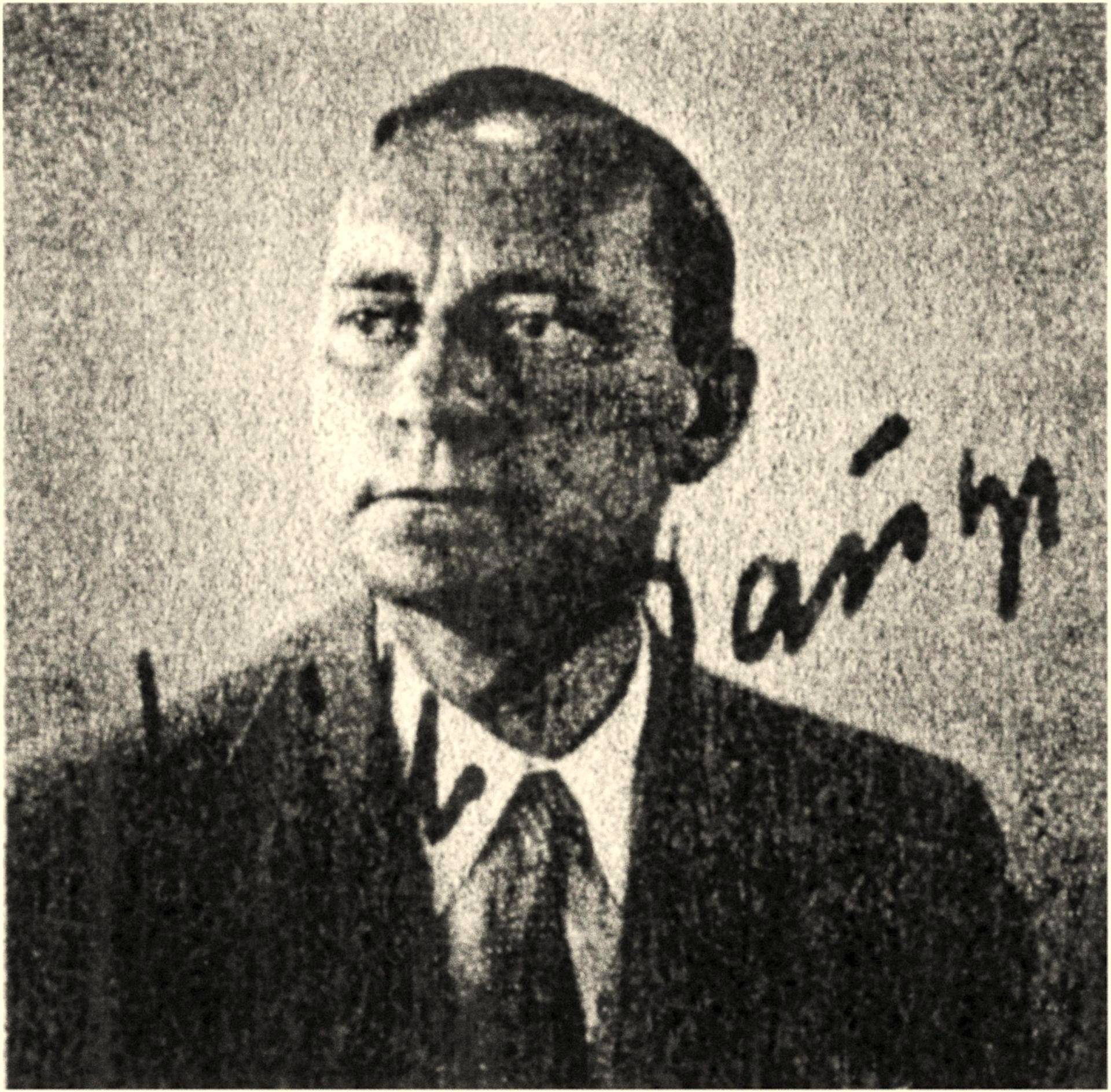 Photograph of the German-Finnish arms dealer Willi Daugs (1893–?).